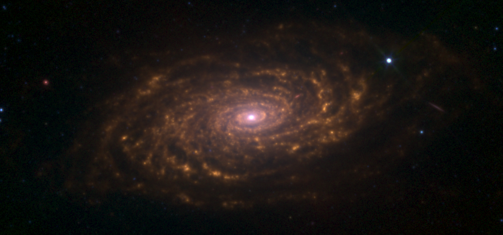 Image of the M63 galaxy in Infrared at 3.6 (blue), 5.8 (green) and 8.0 (red) µm. The image has been made by myself (Médéric Boquien) from the data retrieved on the SINGS project public archives of the Spitzer Space Telescope (courtesy NASA/JPL-Caltech)